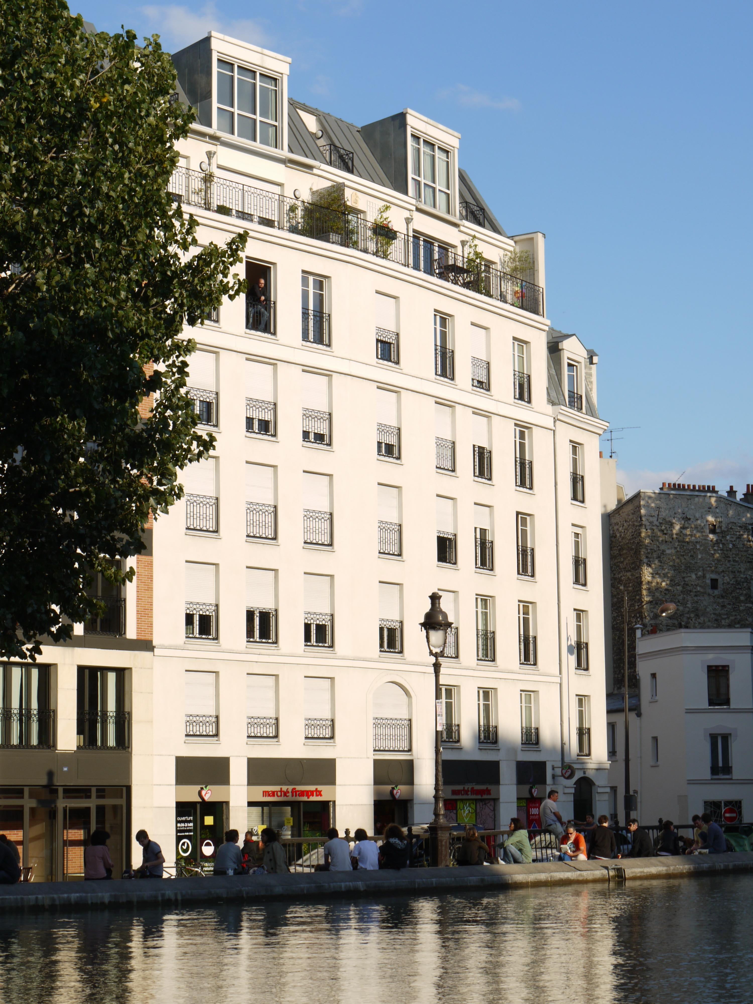 110 Quai de Jemmapes (Paris)